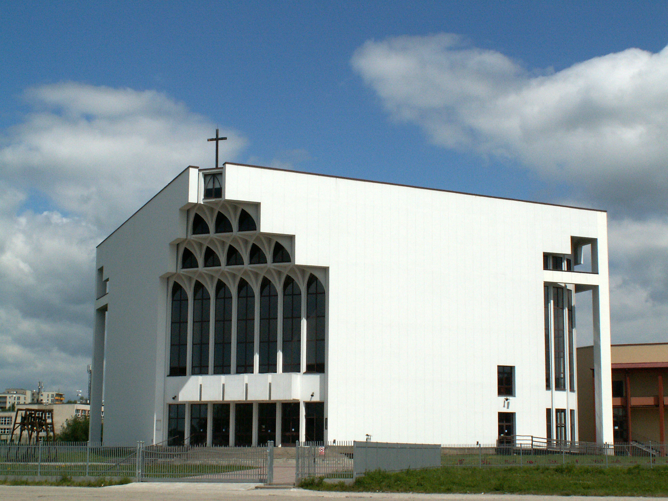 Church of StBrother Albert, os. Dywizjonu 303, Nowa Huta, Krakow, Poland